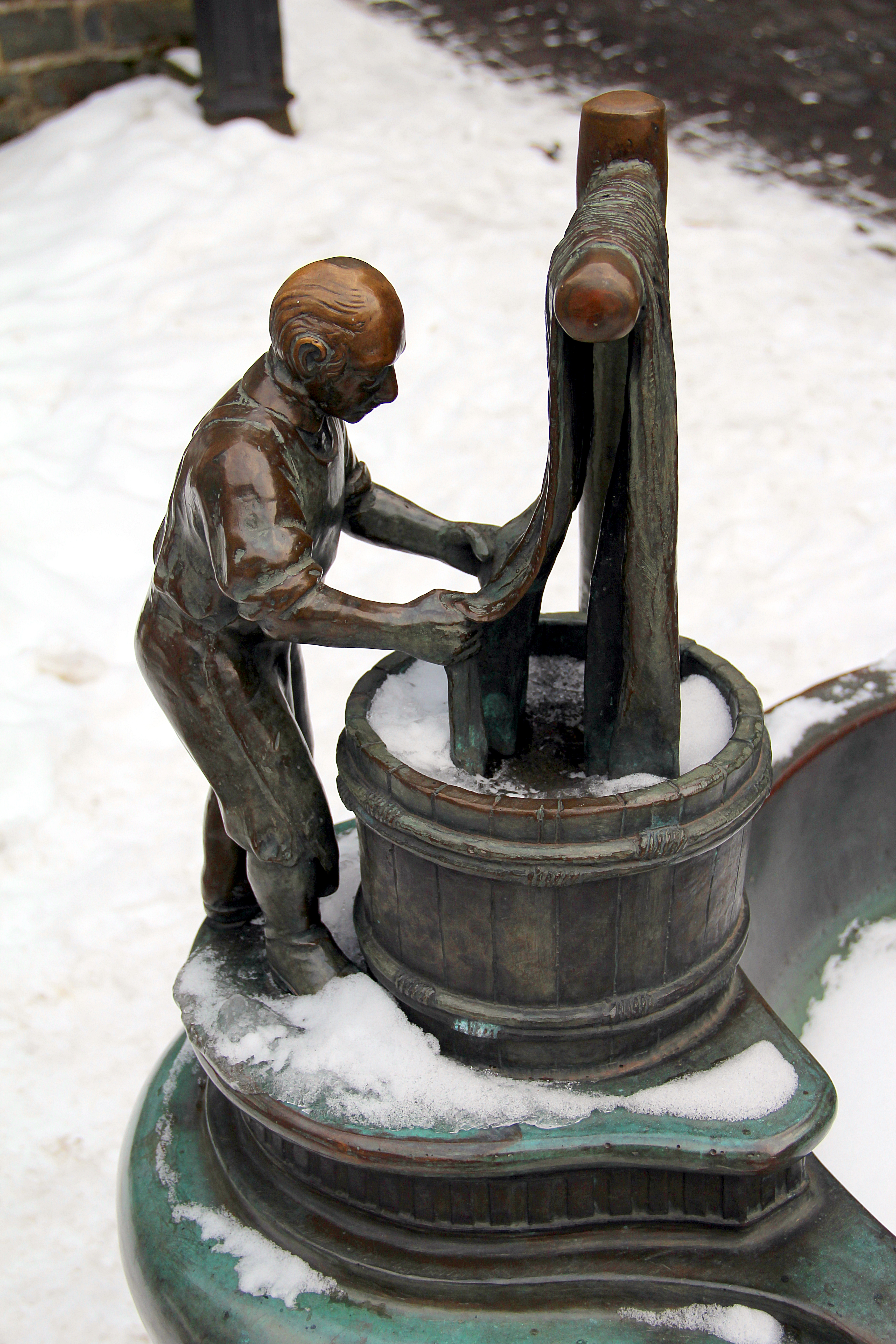 Monschau (Germany), Marktplatz. – Bronze statuette representing a dayer adorning the top of the fountain "Weberbrunnen" by the sculptor Bonifatius Stirnberg.